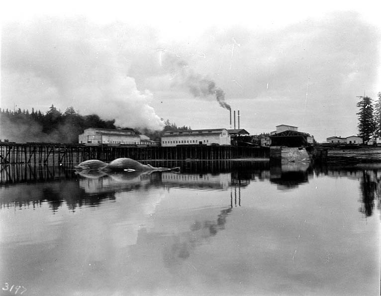 From John Cobb field notebook: Whaling Station of Tyee Co. at Tyee, Admiralty Island, Alaska. Aug. 25, 1910 Subjects (LCSH): Tyee Company; Whaling--Alaska--Tyee; Whales--Alaska--Tyee; Whaling stations--Alaska--Tyee